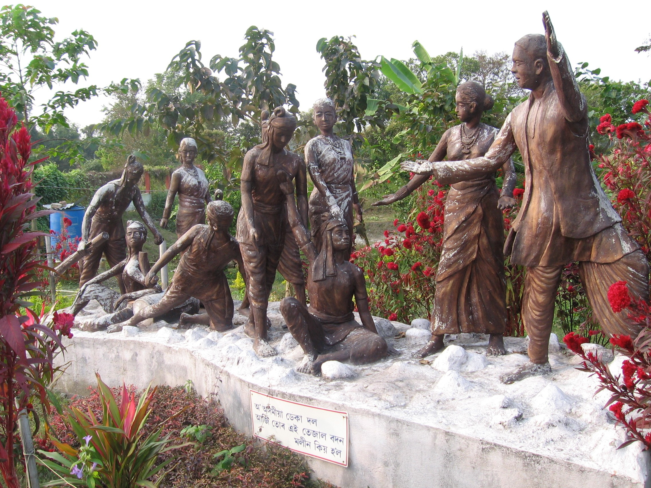 Sculpture in Bishnu Rabha Smriti Udyan, in Tezpur. The plaque says O Oxomiya deka dol, aaji tur ei tezaal bodon moleen kiyo hol (O' Assamese youth, why is it that your red blooded body has become soiled today). The park in which this sculpture is located is the memorial for Bishnuprasad Rabha on the riverbanks of the Brahmaputra in Tezpur. Photo taken using a Canon PowerShot A520.